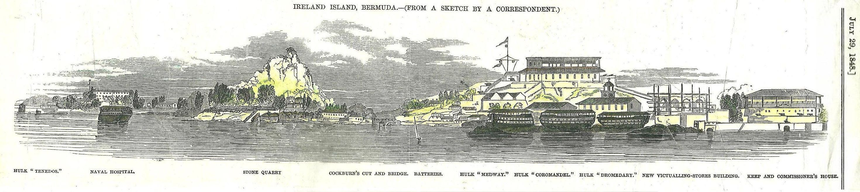 Newspaper showing a woodcut of the dockyard under construction on HMD Ireland Island Bermuda. The hill towards the left was levelled by quarrying.